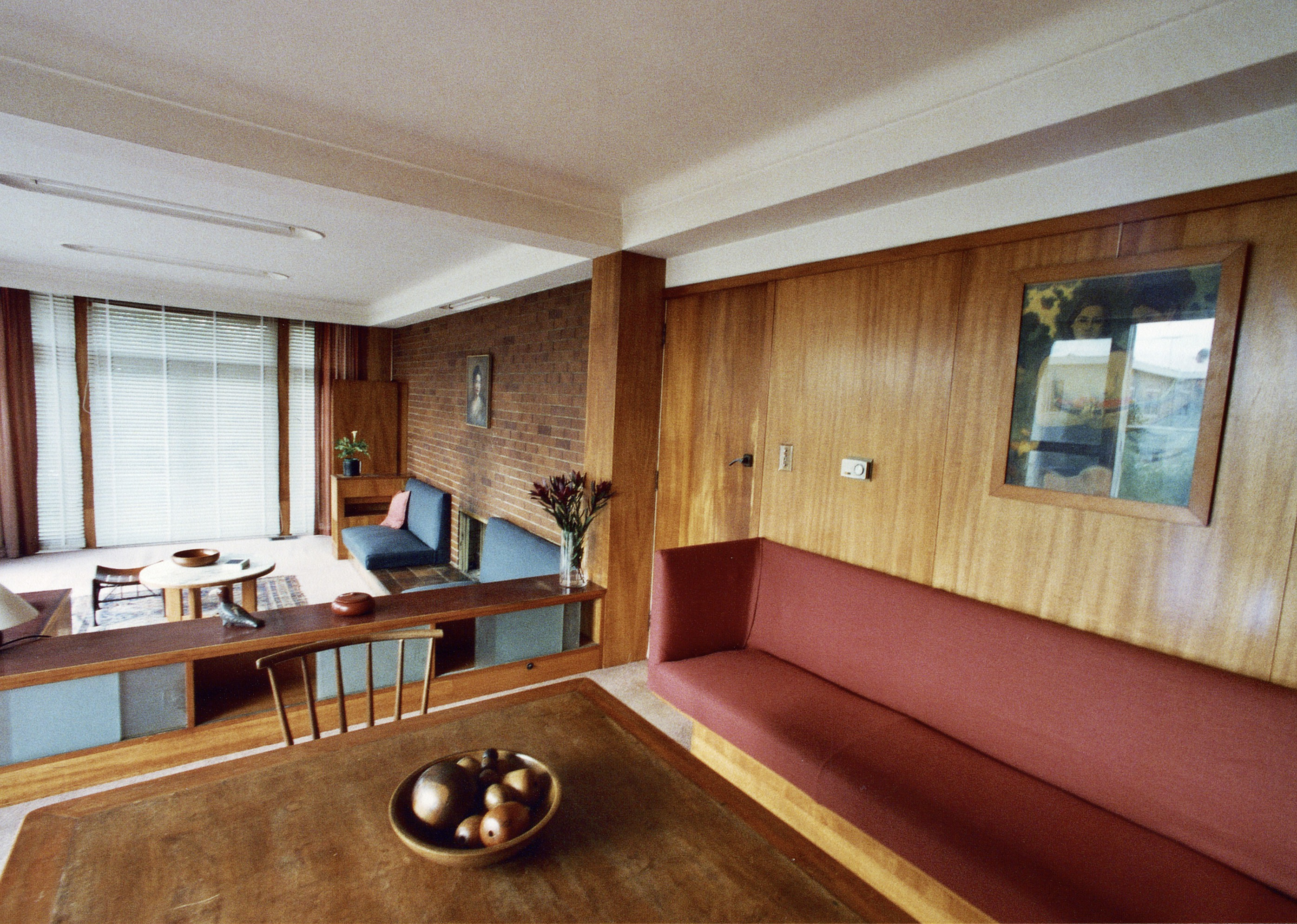 The home has a partial Raumplan which places vestibule, office, lounge on the ground floor and dining and kitchen and bedrooms and bathrooms on an upper level. The house employs floor to ceiling fenestration in its lounge framing dramatic 180 degree views from an elevated position on top of a hill crest. An elevated dining level looks down onto the lounge with inbuilt seating placed three steps lower then dining level. A built-in cabinet separates the dining level from the lounge level. Lounge looking from dining level down to lounge and out toward north east windows. Functional spaces are delineated by finely mitred cubic vertical and horizontal pillaring. Cupboards formed from the backs of the built-in seating niche in the lower lounge offer storage behind sliding glass panels. Materials: Finely mitred and book matched wooden panelling abutting fibrous white plaster and local bricks. Built in furniture surfaced with inlayed Formica joined by Native Rimu wood and edged by 1cm wood trim.